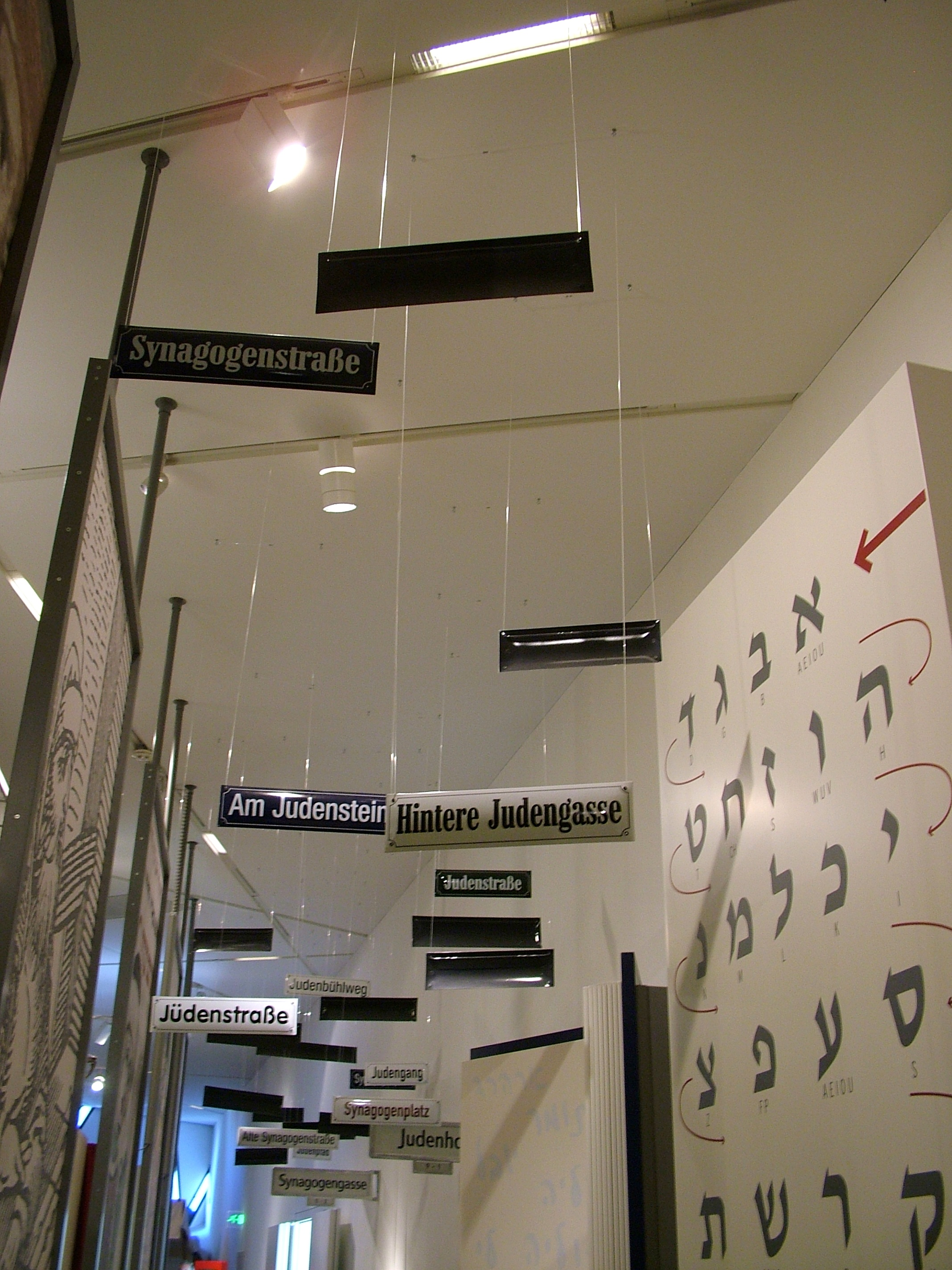 Jewish Museum Berlin, Jewish street names.